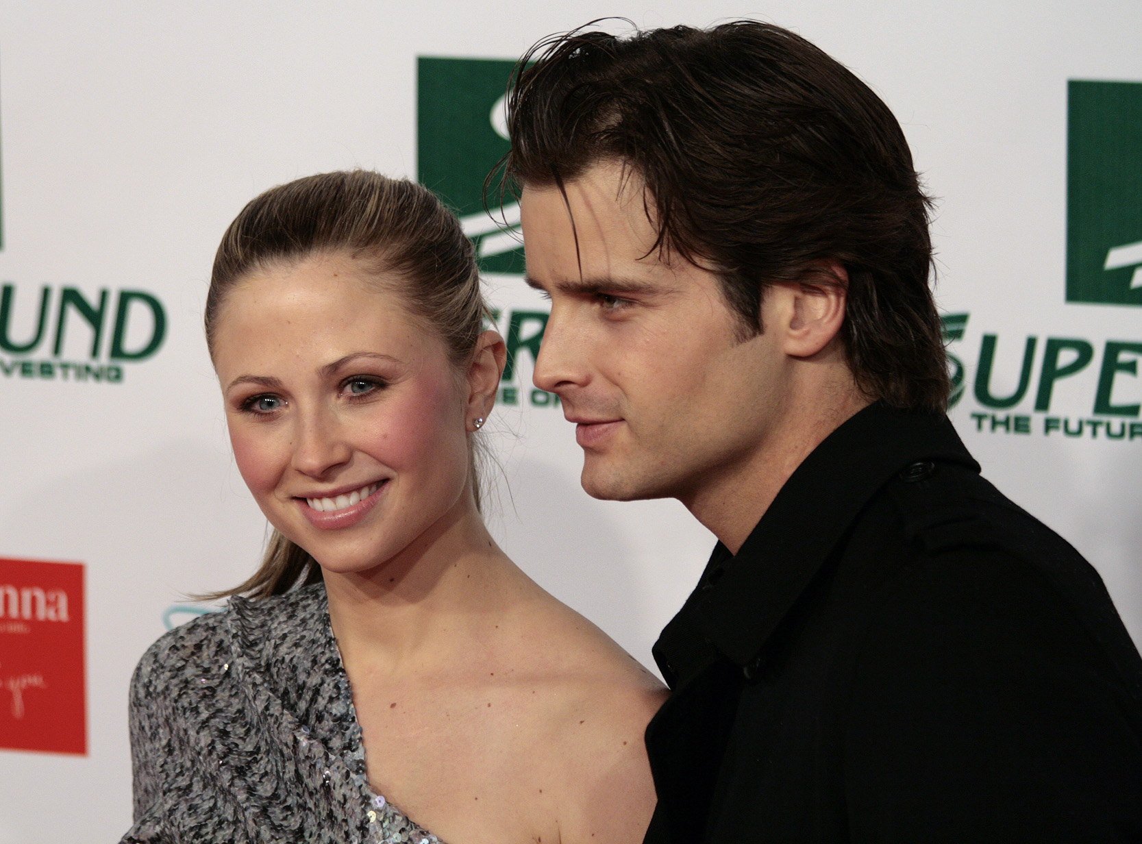 Molly Schade and Patrick Nuo at the Women's World Award 2009 (Wiener Stadthalle, Vienna, Austria).